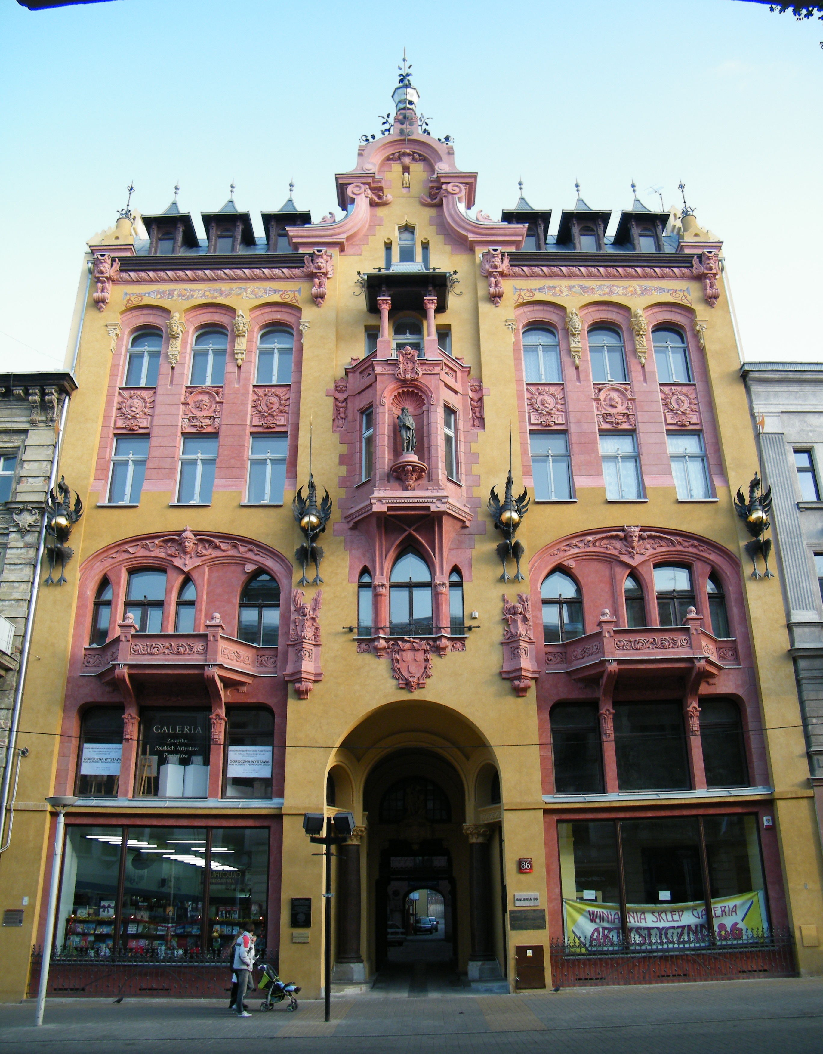 House under Gutenberg, Łódź